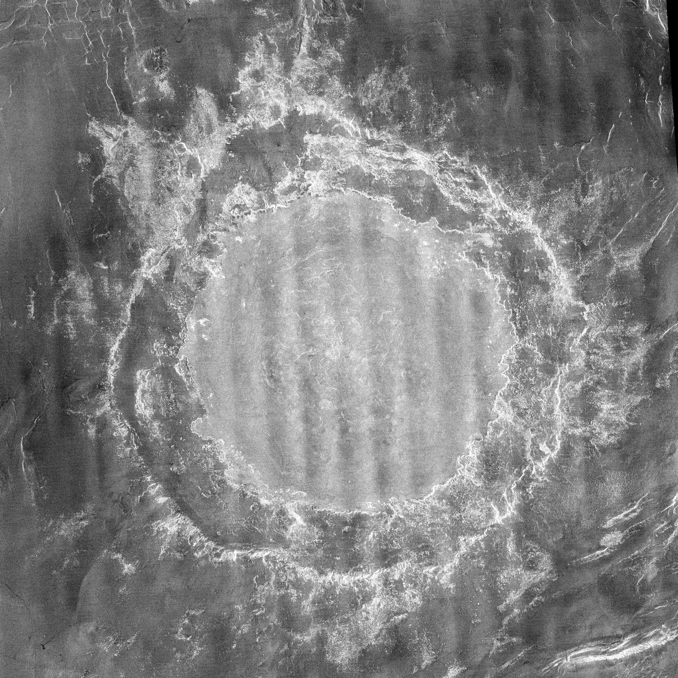 (Original caption): This Magellan image mosaic shows the largest (275 kilometers in diameter [170 miles]) impact crater known to exist on Venus at this point in the Magellan mission. The crater is located north of Aphrodite Terra and east of Eistla Regio at latitude 12.5 degrees north and longitude 57.4 degrees east, and was imaged during Magellan orbit 804 on November 12, 1990. The Magellan science team has proposed to name this crater Mead, after Margaret Mead, the American Anthropologist (1901- 1978). All Magellan-based names of features on Venus are, of course, only proposed until final approval is given by the International Astronomical Union-Commission on Planetary Nomenclature. Mead is classified as a multi-ring crater with its innermost, concentric scarp being interpreted as the rim of the original crater cavity. No inner peak-ring of mountain massifs is observed on Mead. The presence of hummocky, radar-bright crater ejecta crossing the radar-dark floor terrace and adjacent outer rim scarp suggests that the floor terrace is probably a giant rotated block that is concentric to, but lies outside of, the original crater cavity. The flat, somewhat brighter inner floor of Mead is interpreted to result from considerable infilling of the original crater cavity by impact melt and/or by volcanic lavas. To the southeast of the crater rim, emplacement of hummocky ejecta appears to have been impeded by the topography of preexisting ridges, thus suggesting a very low ground-hugging mode of deposition for this material. Radar illumination on this and all other Magellan image products is from the left to the right in the scene.